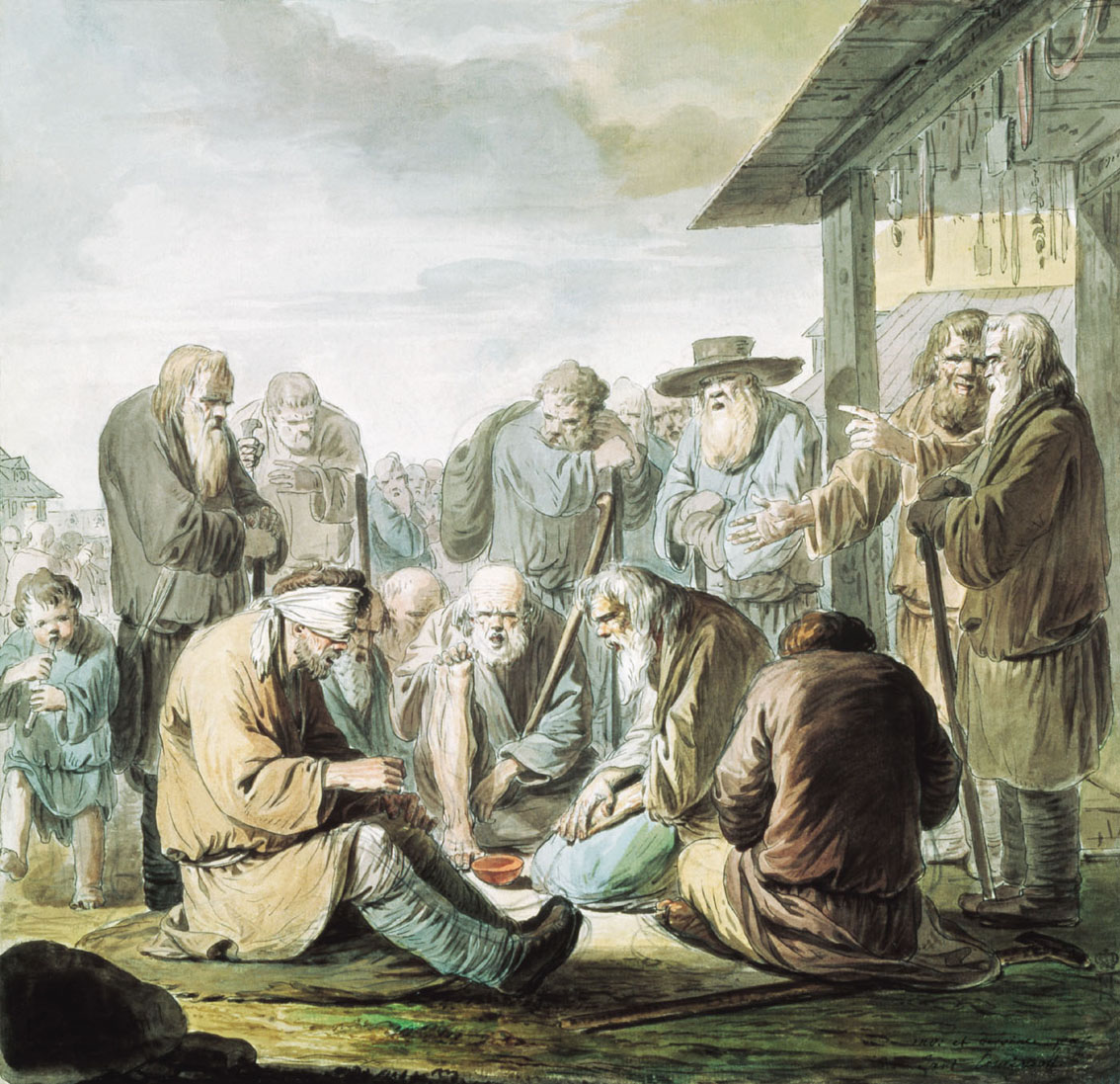 The Singing Beggars. Watercolours. State Russian Museum, Saint Petersburg.